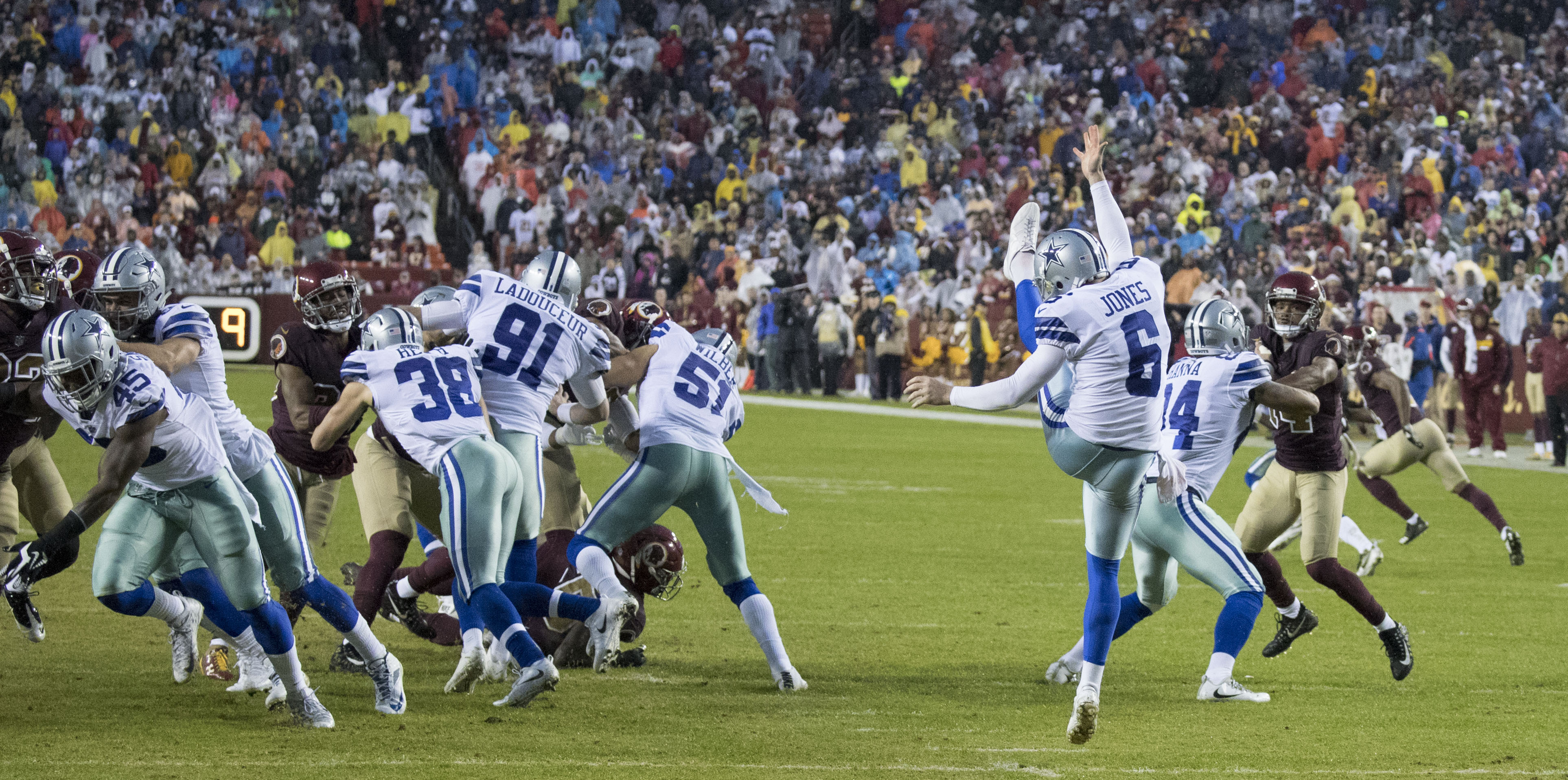 Cowboys at Redskins 10/29/17